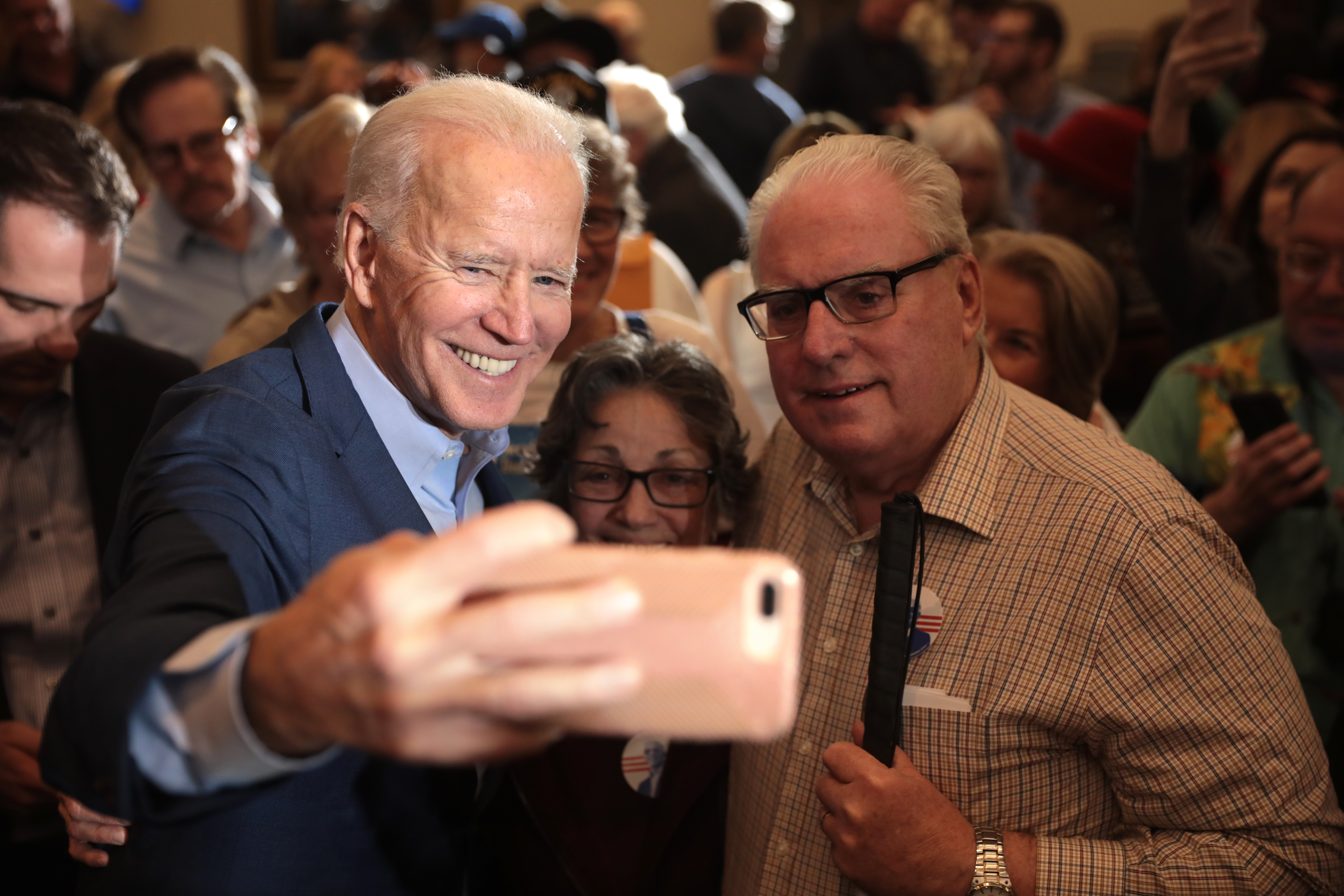 Former Vice President of the United States Joe Biden speaking with supporters at a community event at Sun City MacDonald Ranch in Henderson, Nevada.